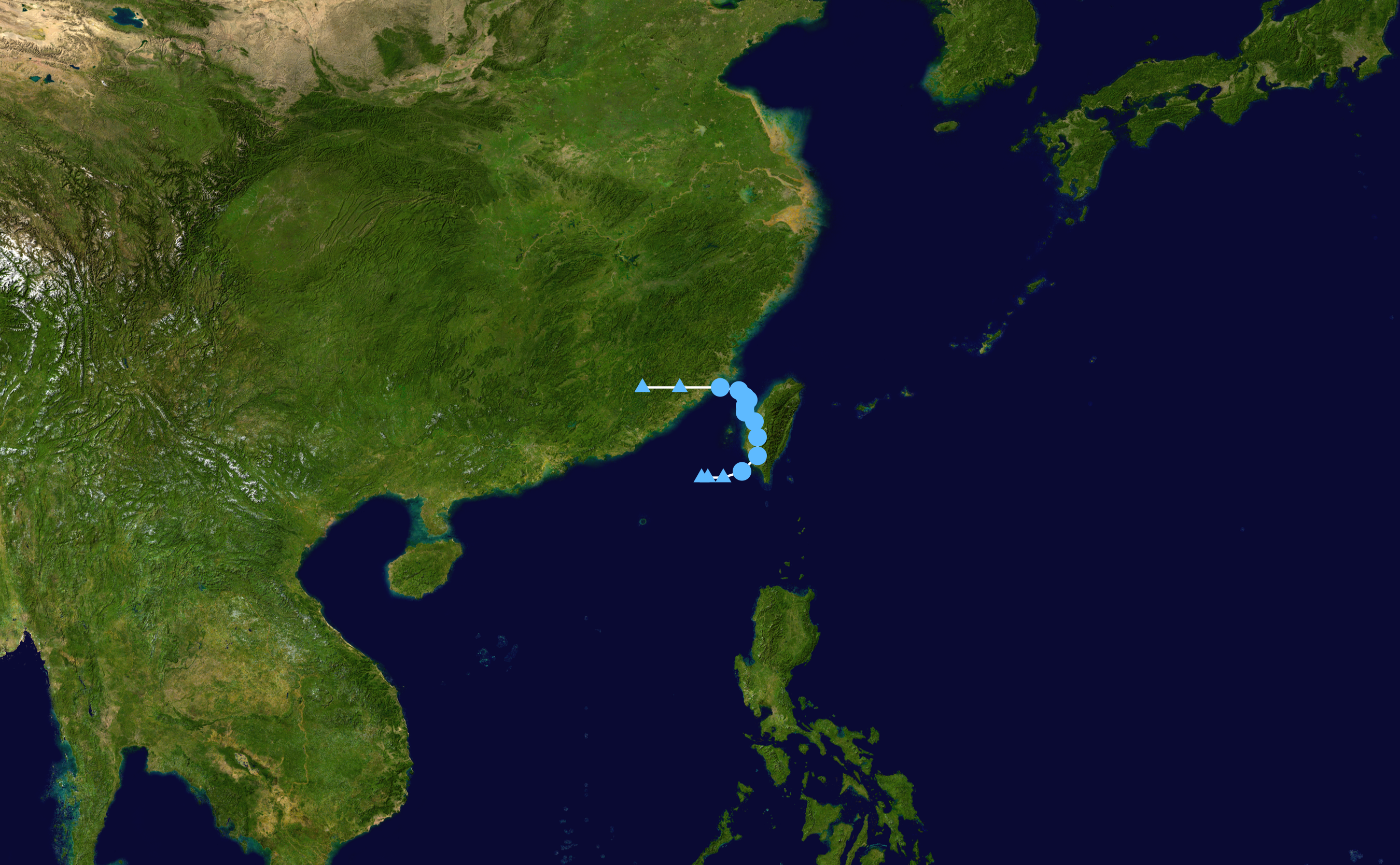 Track map of Tropical Depression Luis of the 2018 Pacific typhoon season. The points show the location of the storm at 6-hour intervals. The colour represents the storm's maximum sustained wind speeds as classified in the Saffir–Simpson scale (see below), and the shape of the data points represent the nature of the storm, according to the legend below. Saffir–Simpson scale Tropical depression≤38 mph≤62 km/h Category 3111–129 mph178–208 km/h Tropical storm39–73 mph63–118 km/h Category 4130–156 mph209–251 km/h Category 174–95 mph119–153 km/h Category 5≥157 mph≥252 km/h Category 296–110 mph154–177 km/h Unknown Storm type Tropical cyclone Subtropical cyclone Extratropical cyclone / Remnant low / Tropical disturbance / Monsoon depression